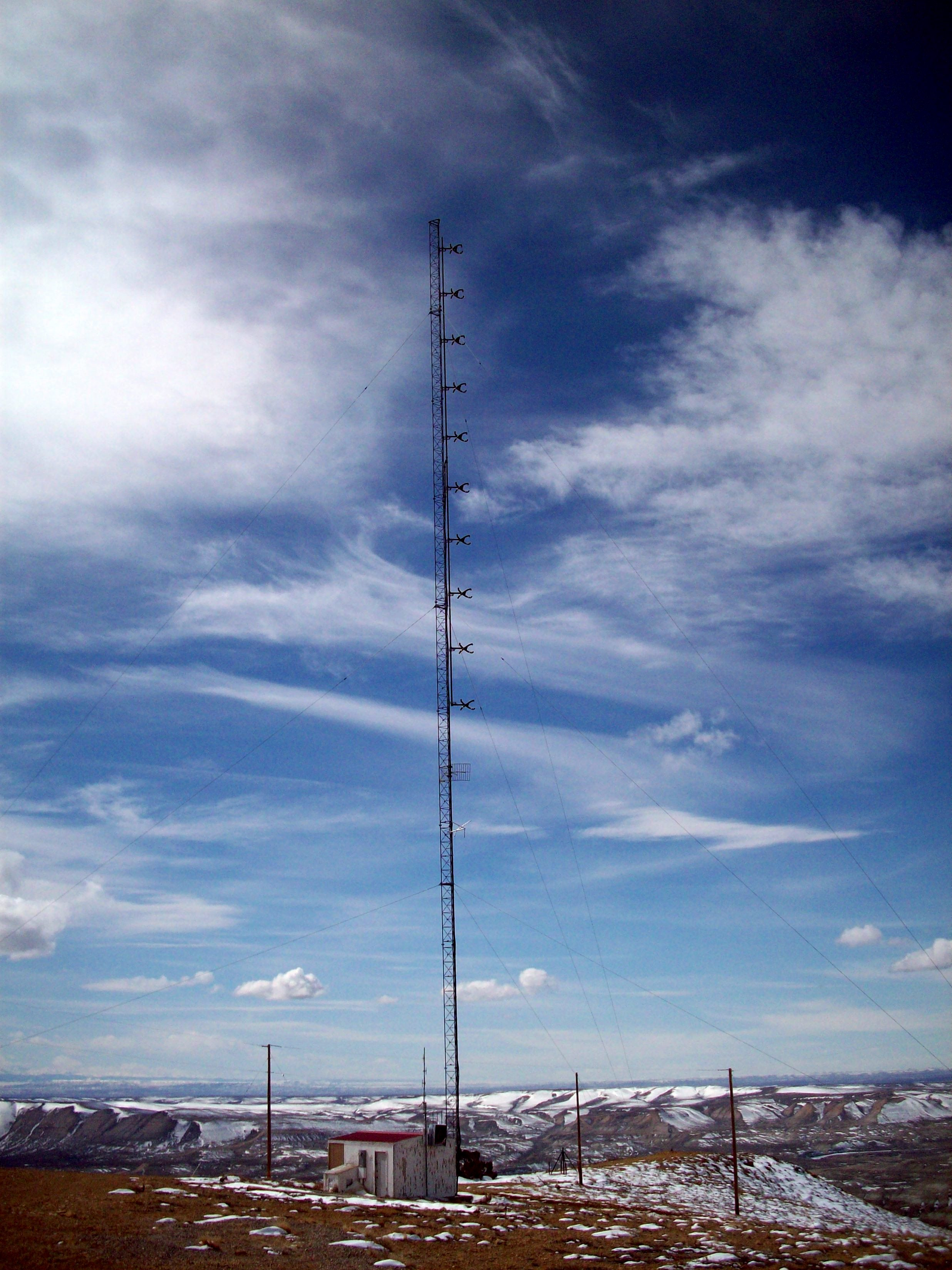 The transmitter for KYCS 95.1 Rock Springs, Wyoming. Wilkins Peak, Wyoming. The previous spot where KUWZ sat is directly behind this tower.